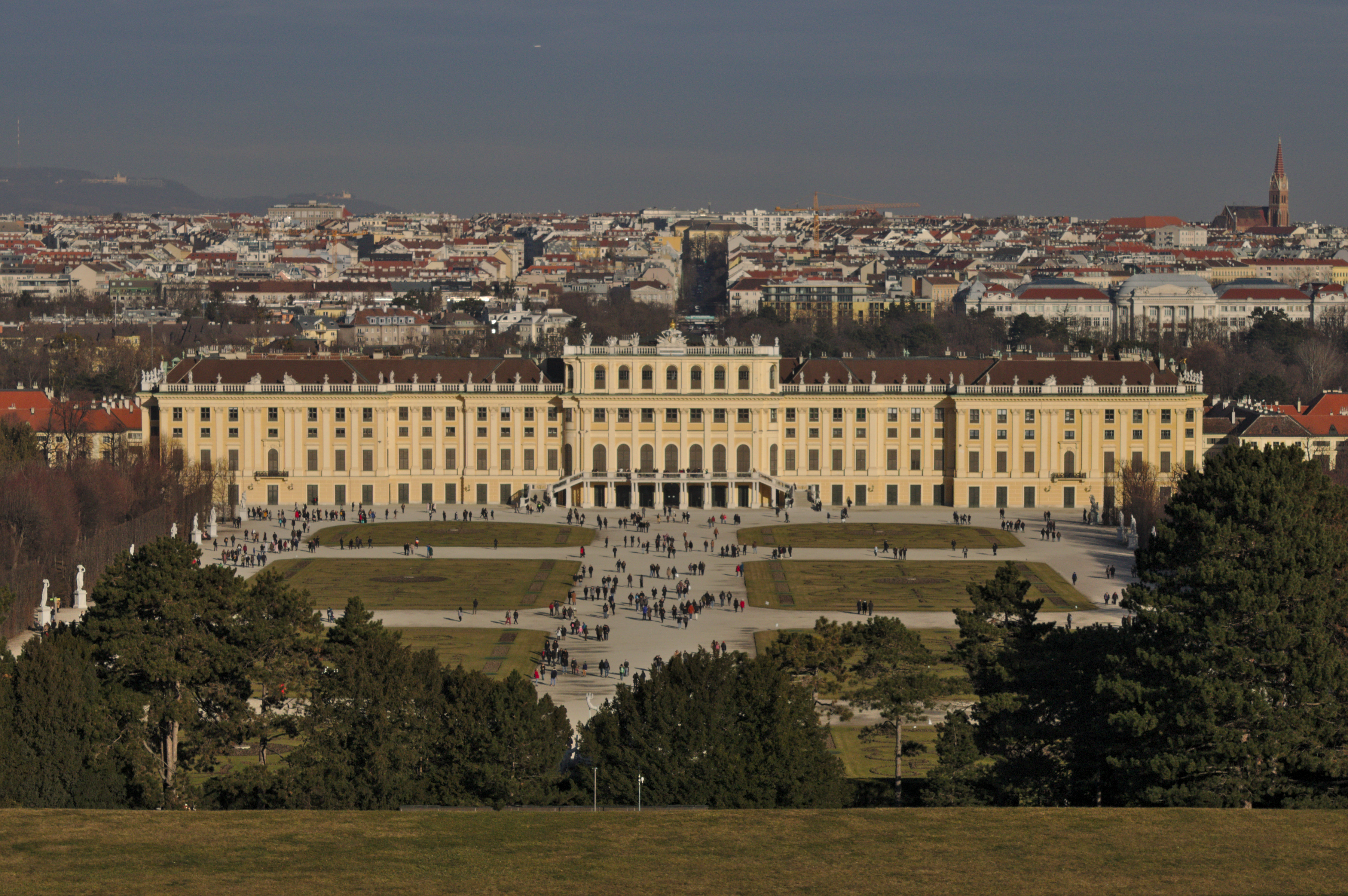 Schloss_Schoenbrunn_Vienna_19-20